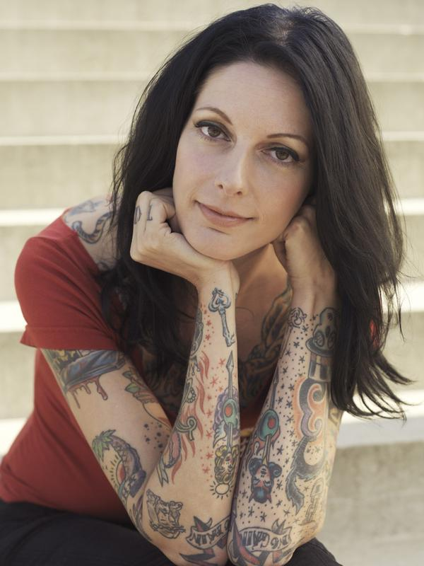 Jane with Tattoos